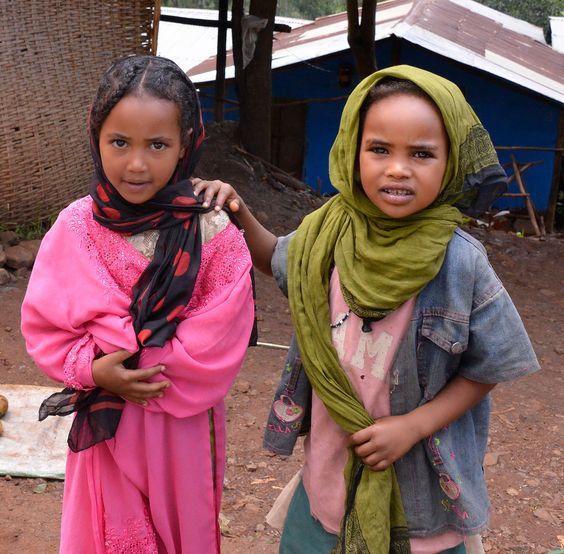 Oromo Girls, Ethiopia